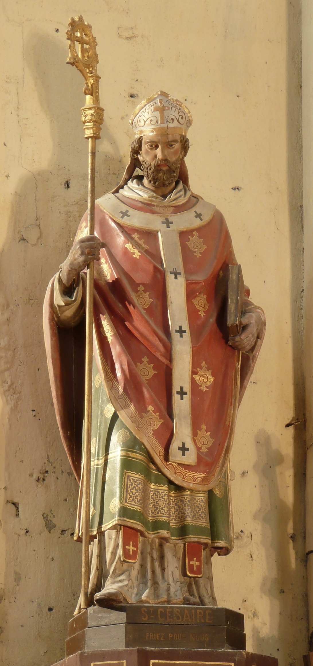 Cropped version of